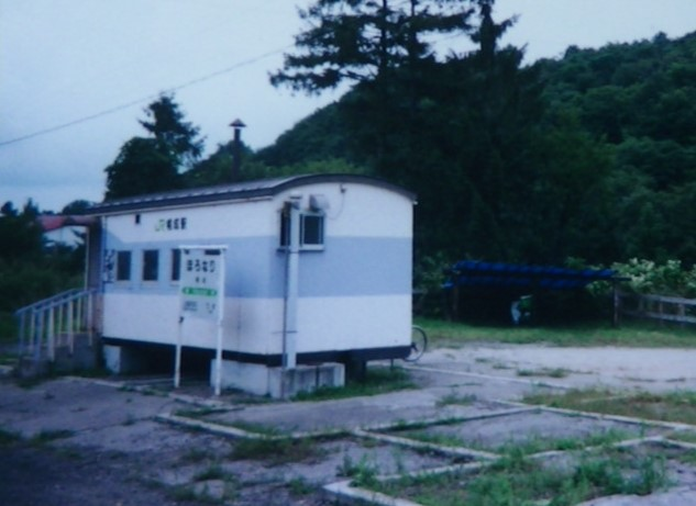 JR Shinmei line Horonari station (1995)